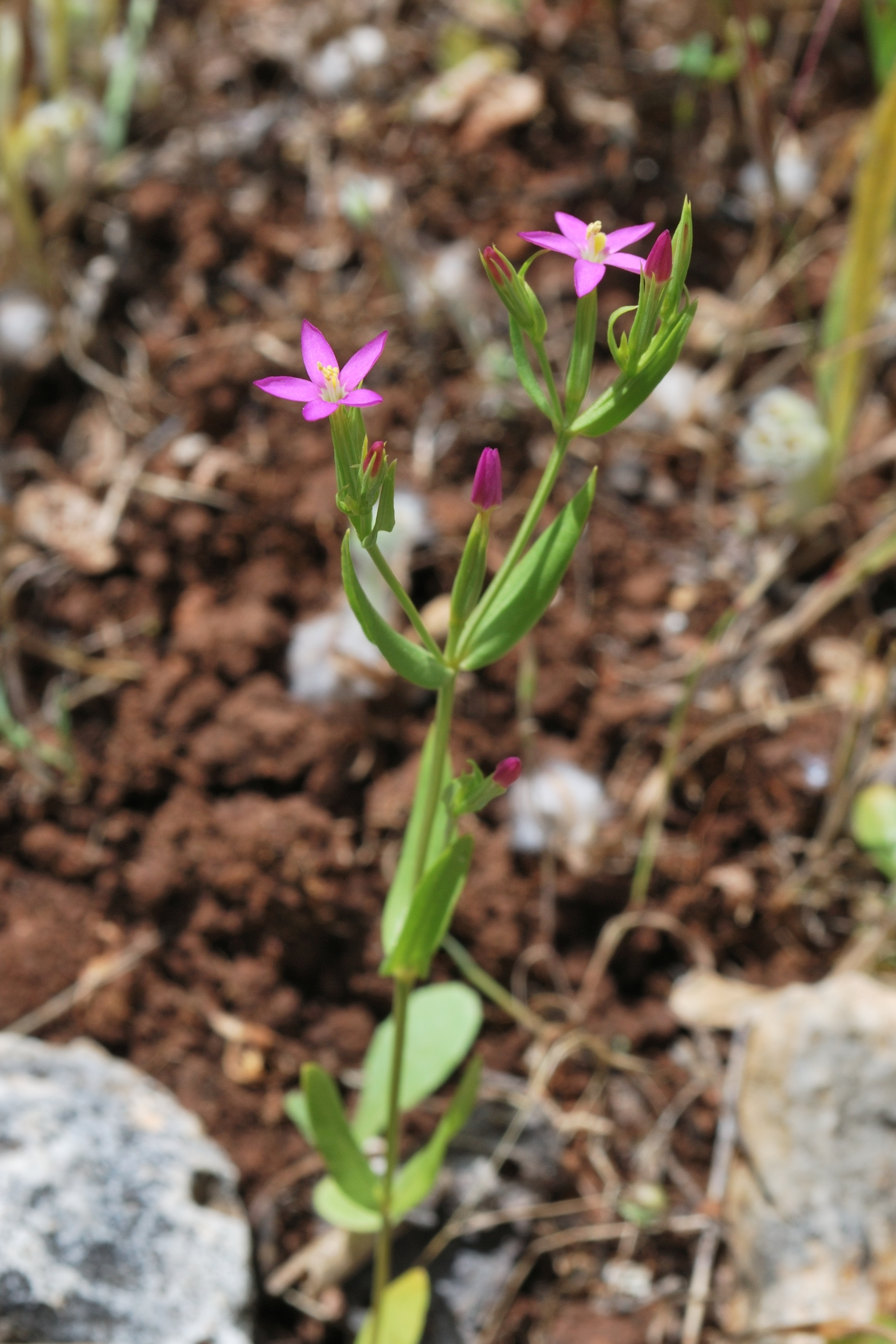 Centaurium tenuiflorum (Hoffmanns. & Link) Fritsch, Mount Carmel, Israel, May 3, 2011.